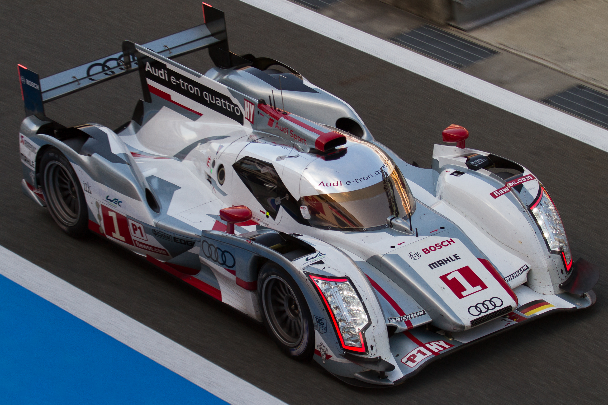 FIA World Endurance Championship 2012 Rd.7 6 Hours of Fuji: #1 Audi R18 e-tron quattro (Audi Sport Team Joest), driven by André Lotterer)